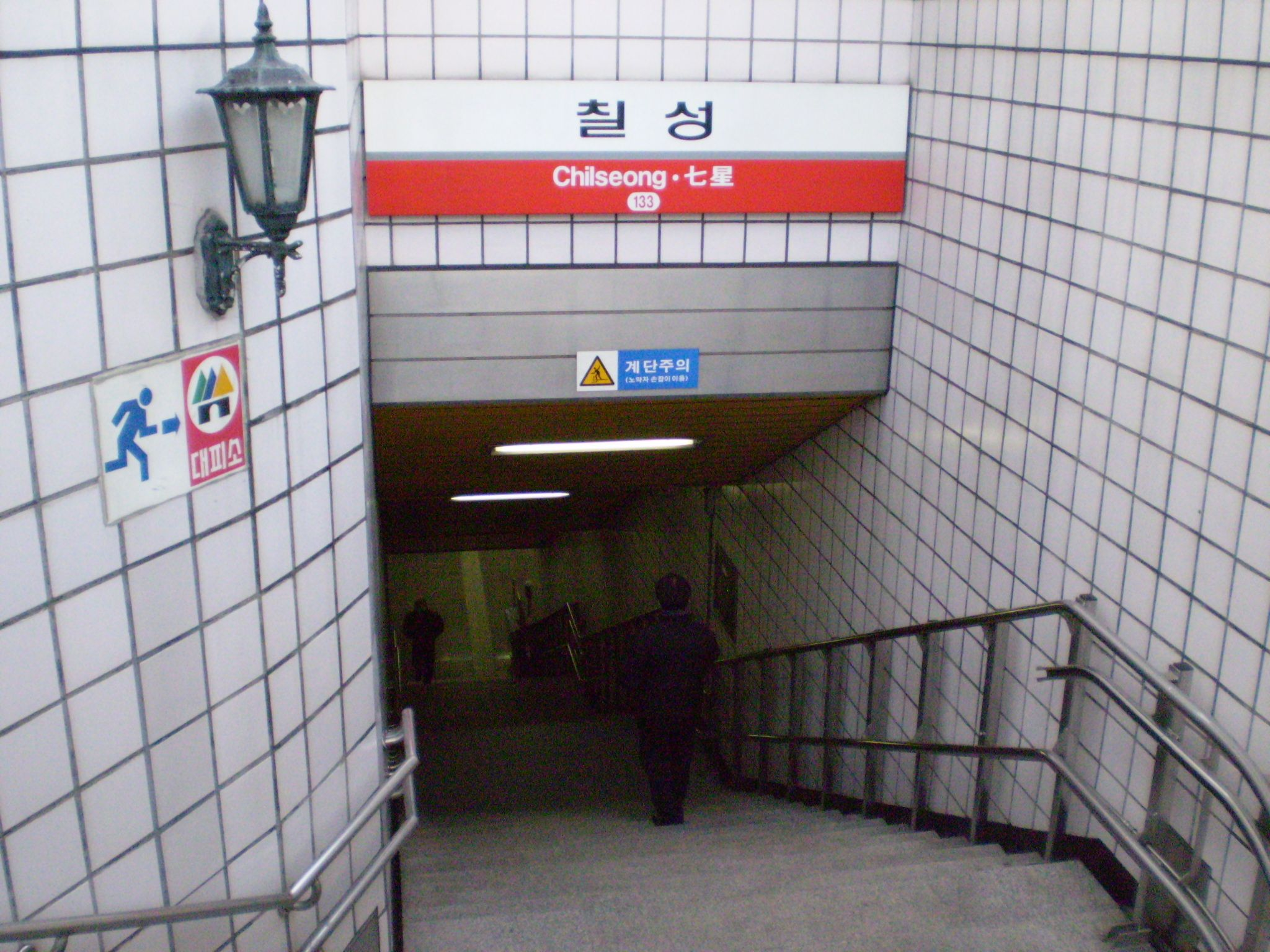 An entrance to Chilseong subway station on Line 1 in Daegu, South Korea.